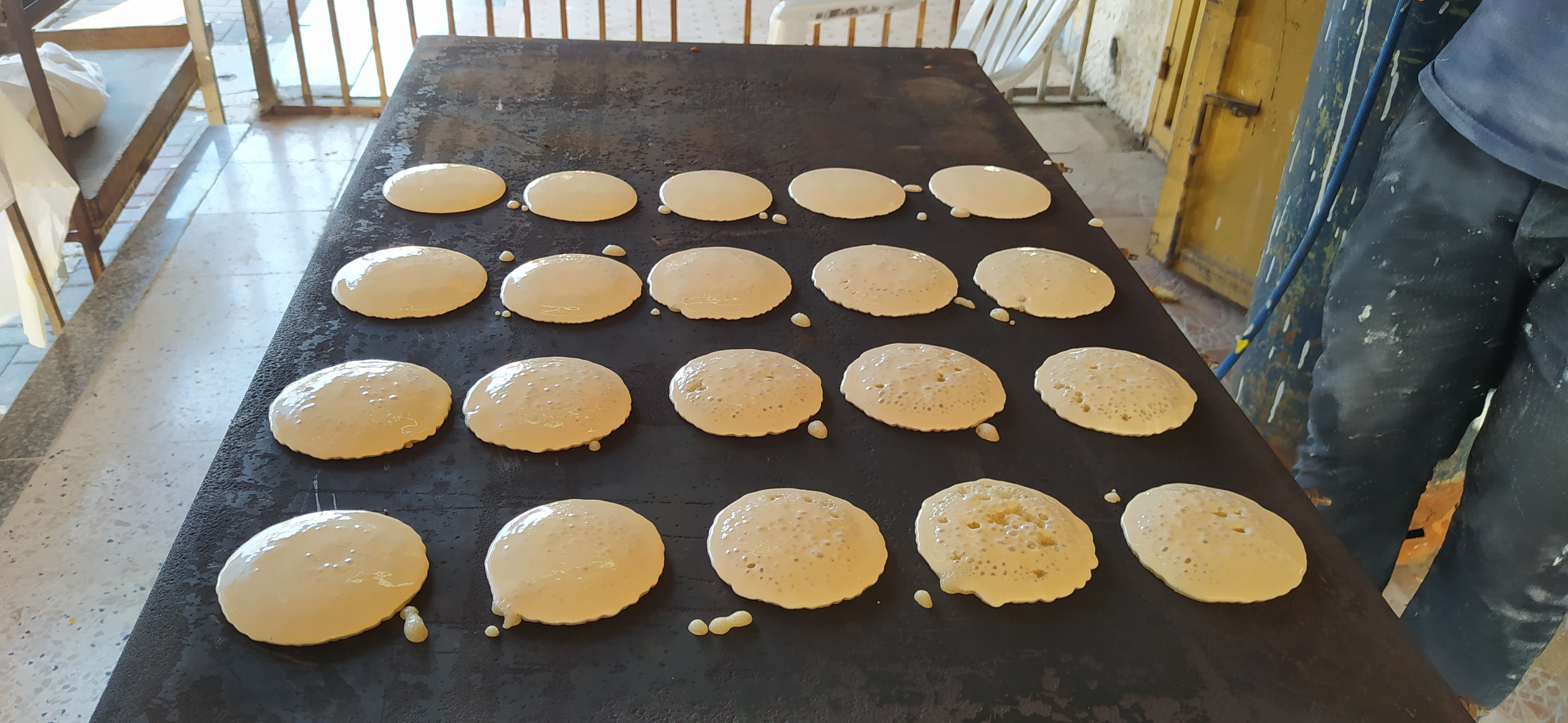 Preparing Qatayef, Salfit, State of Palestine